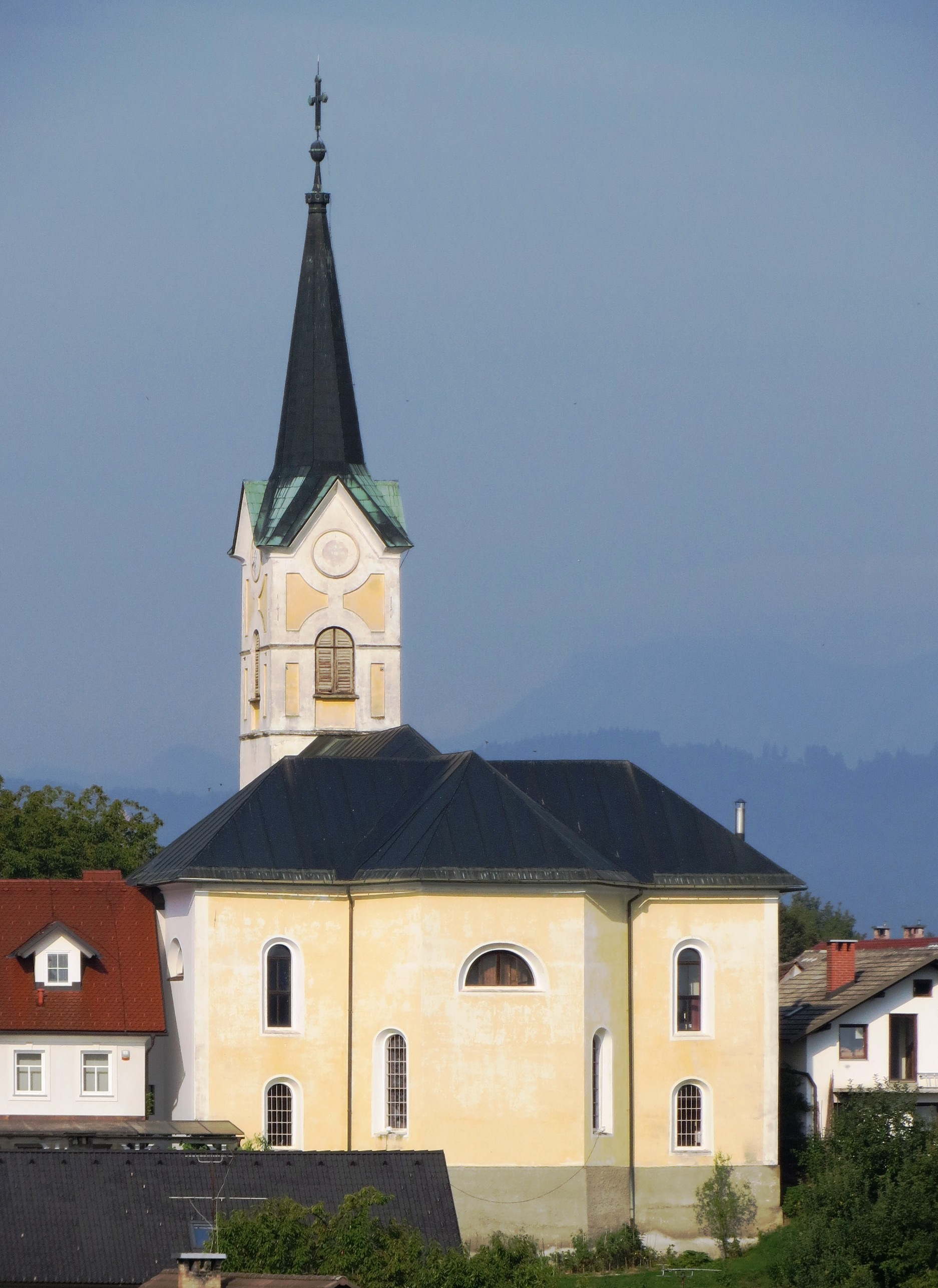 Conversion of Paul Church in Mavčiče, Municipality of Kranj, Slovenia